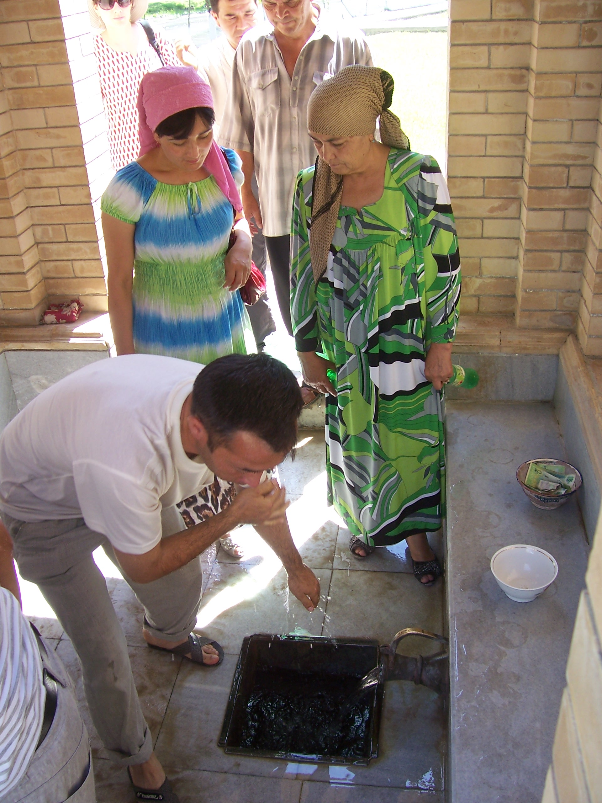 Holly spring water near Daniel's grave in Samarkand, UZBEKSITAN